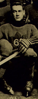 Ice hockey player John "Jocko" Anderson of the 1915–16 Winnipeg 61st Battalion.